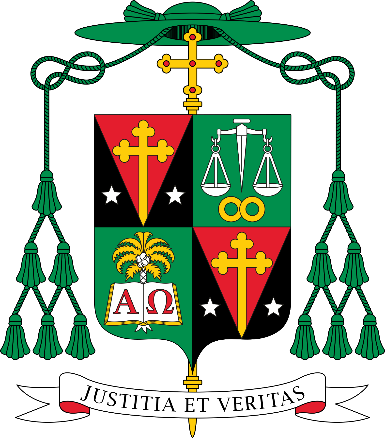 Francis Meli JCL, bishop, coat of arms